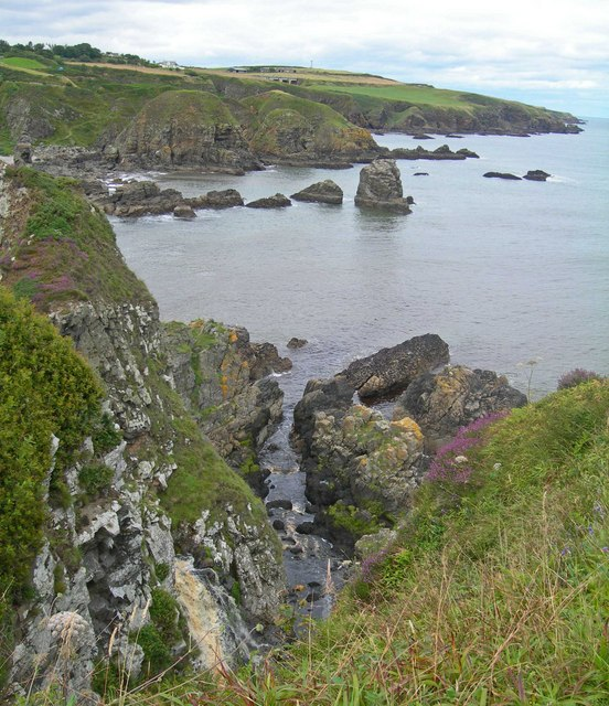 Coastline from Doonies Point north to Grim Brigs